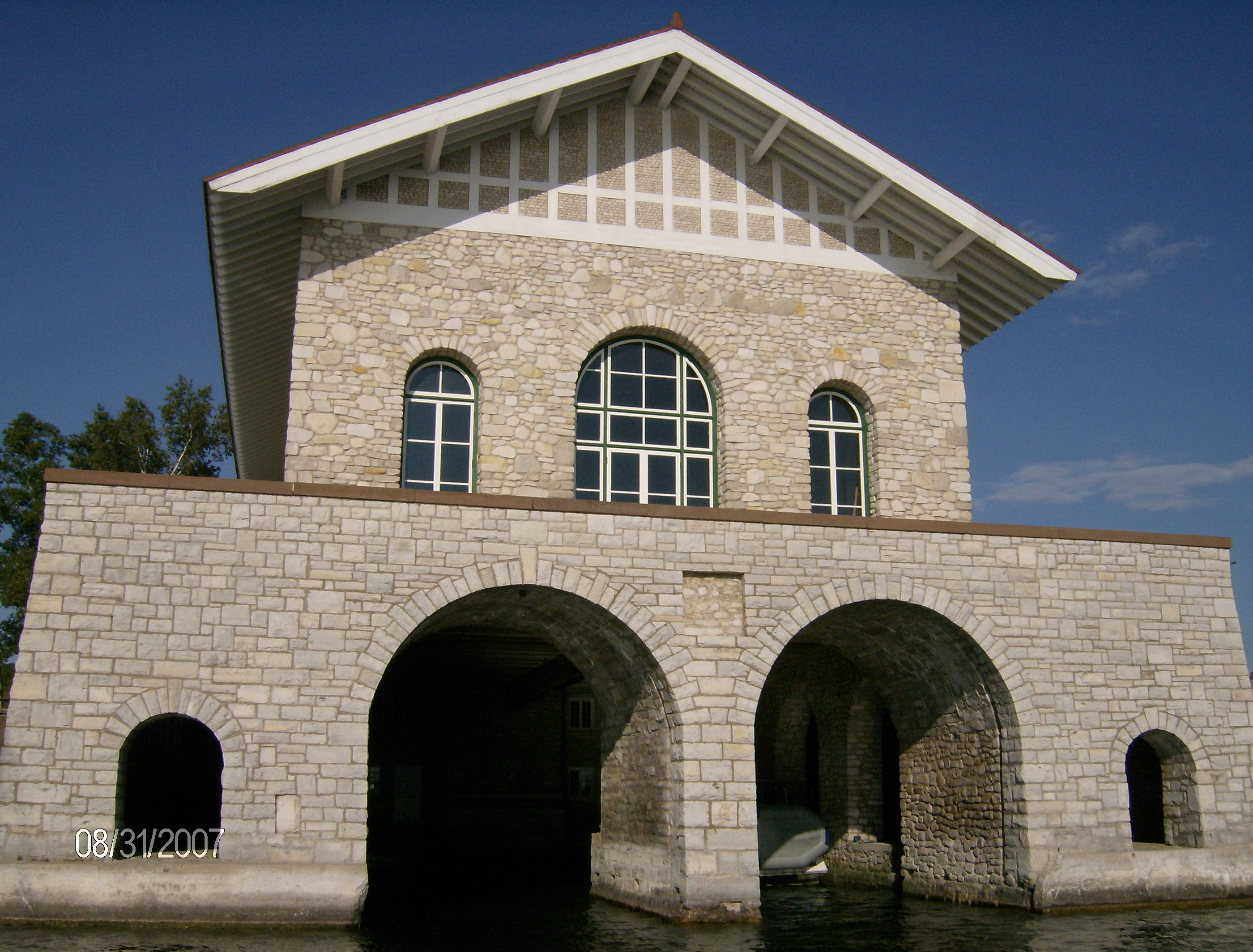 Icelandic Stone Boathouse on Rock Island, Wisconsin. It is in the Thordarson Estate Historic District, a historic district on the National Register of Historic Places.